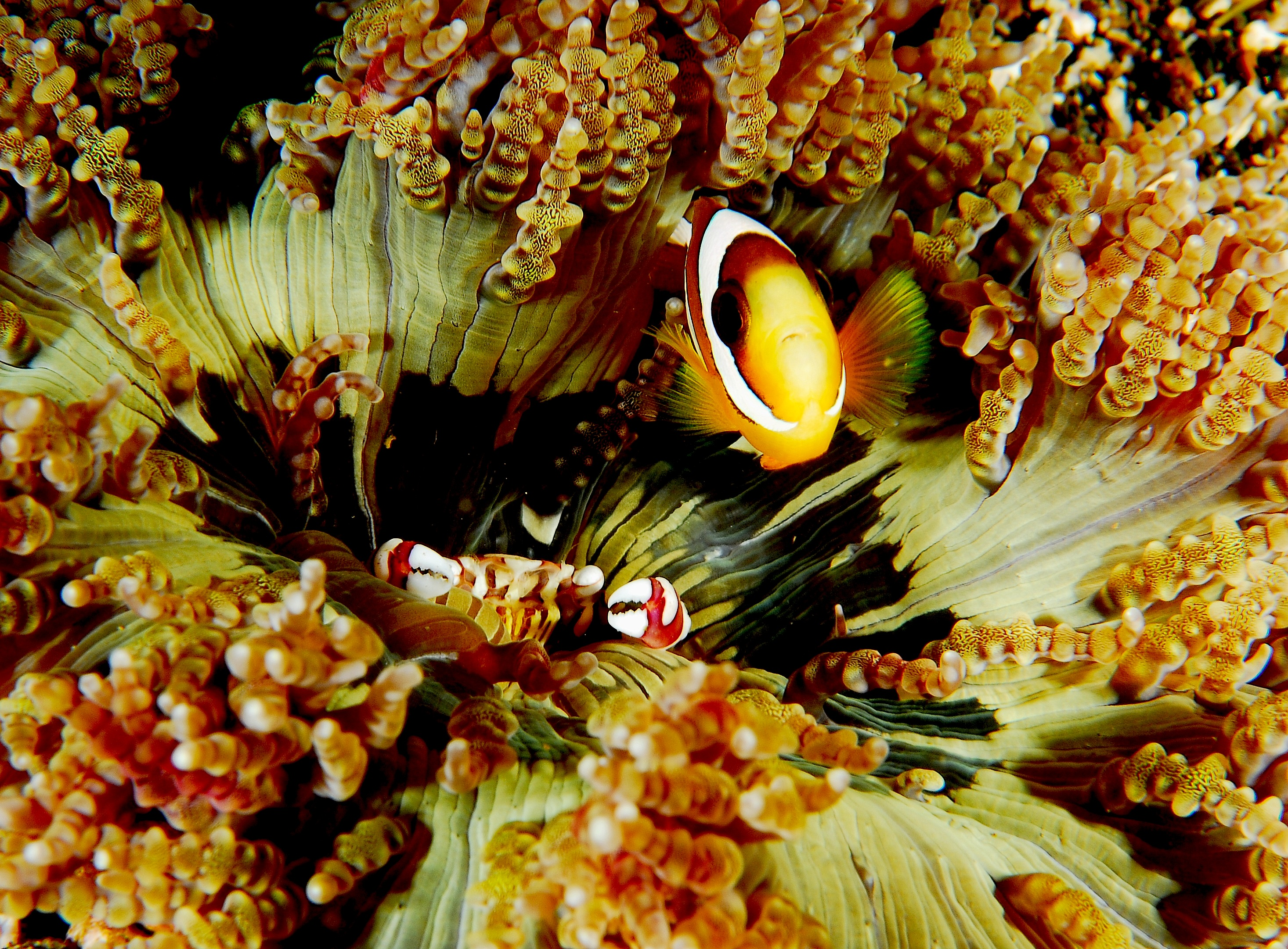 Heteractis aurora with Anemonefish and anemone crab